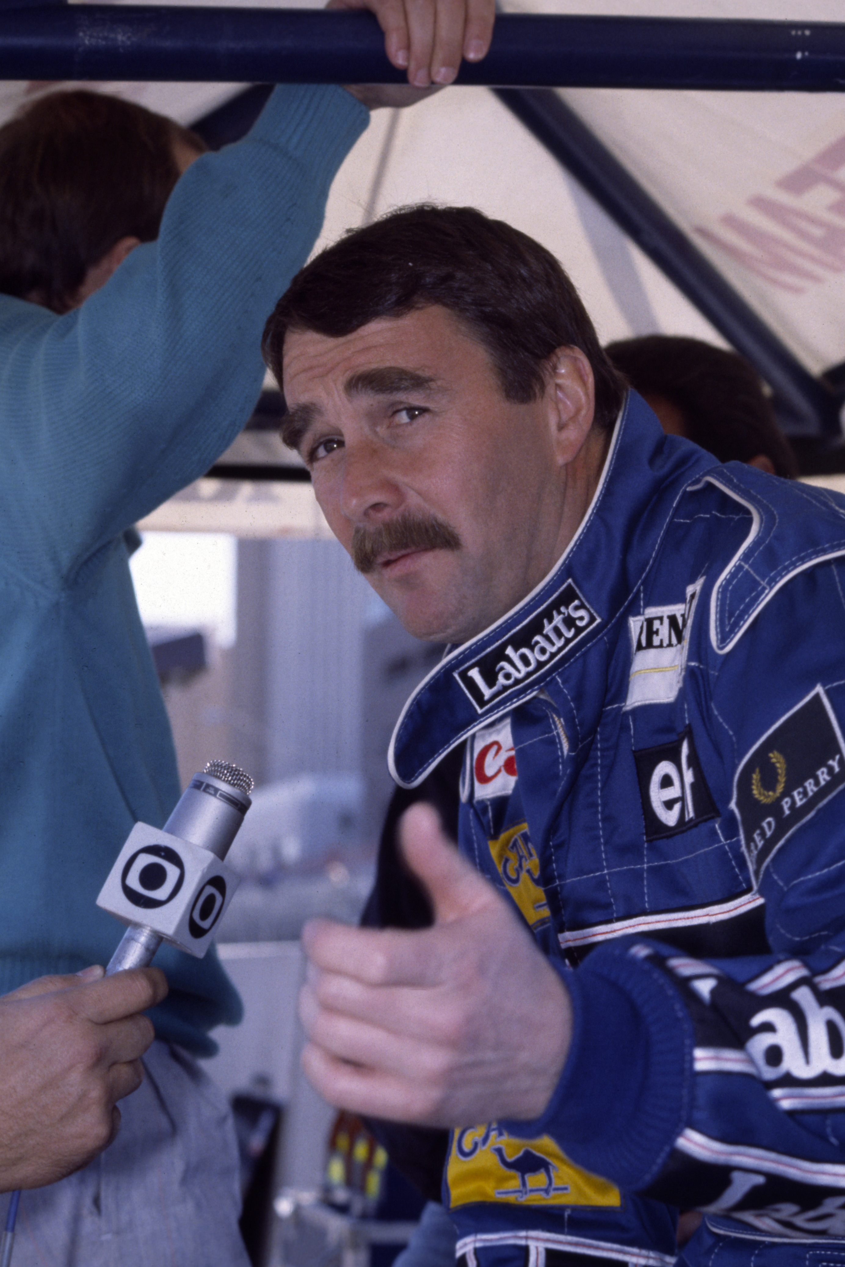 Nigel Mansell at the 1991 United States Grand Prix in Phoenix, Arizona